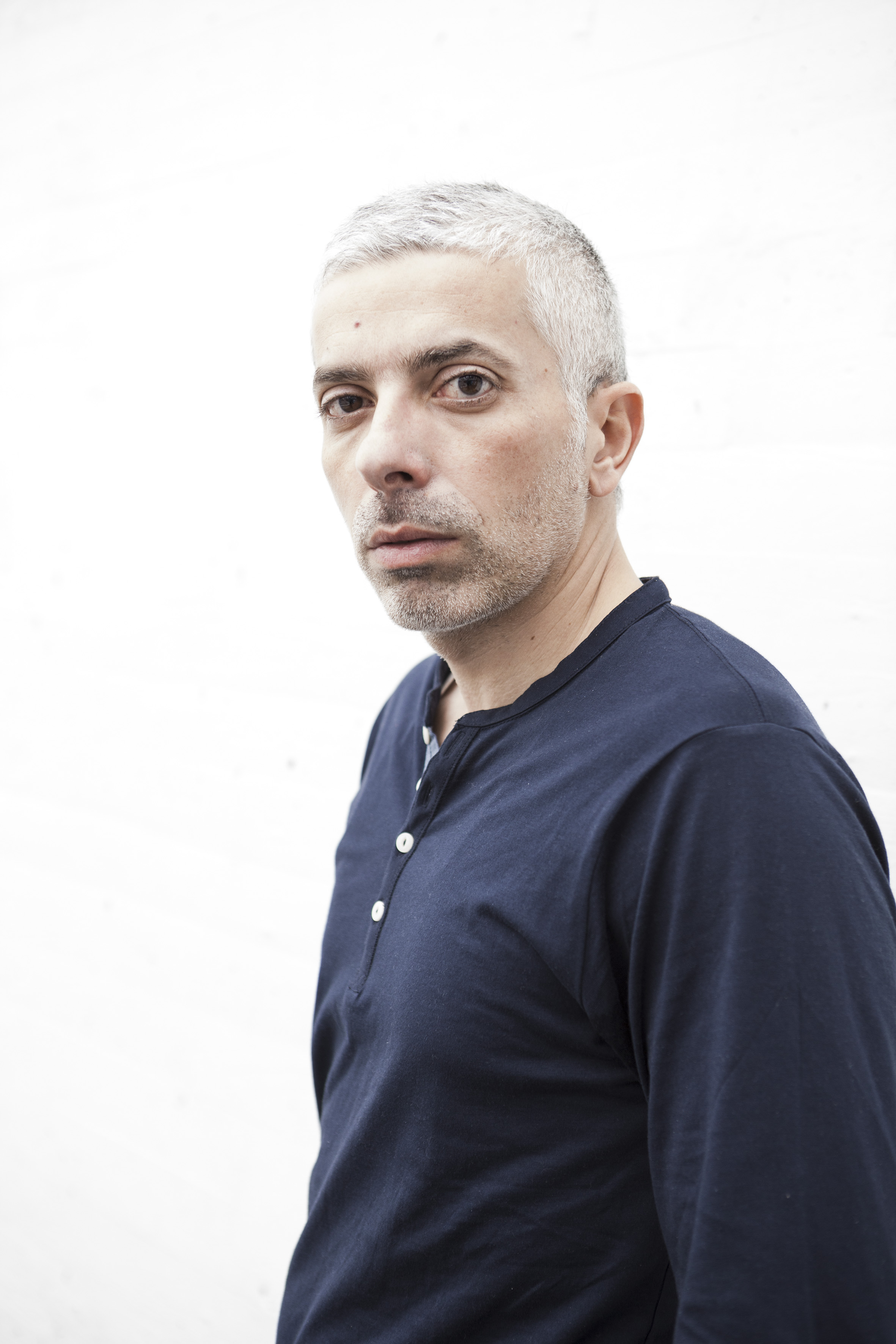 Kiasmassa taiteilija Adel Abidin artist in Kiasma photo: Kansallisgalleria / Pirje MykkänenFinnish National gallery / Pirje Mykkänen